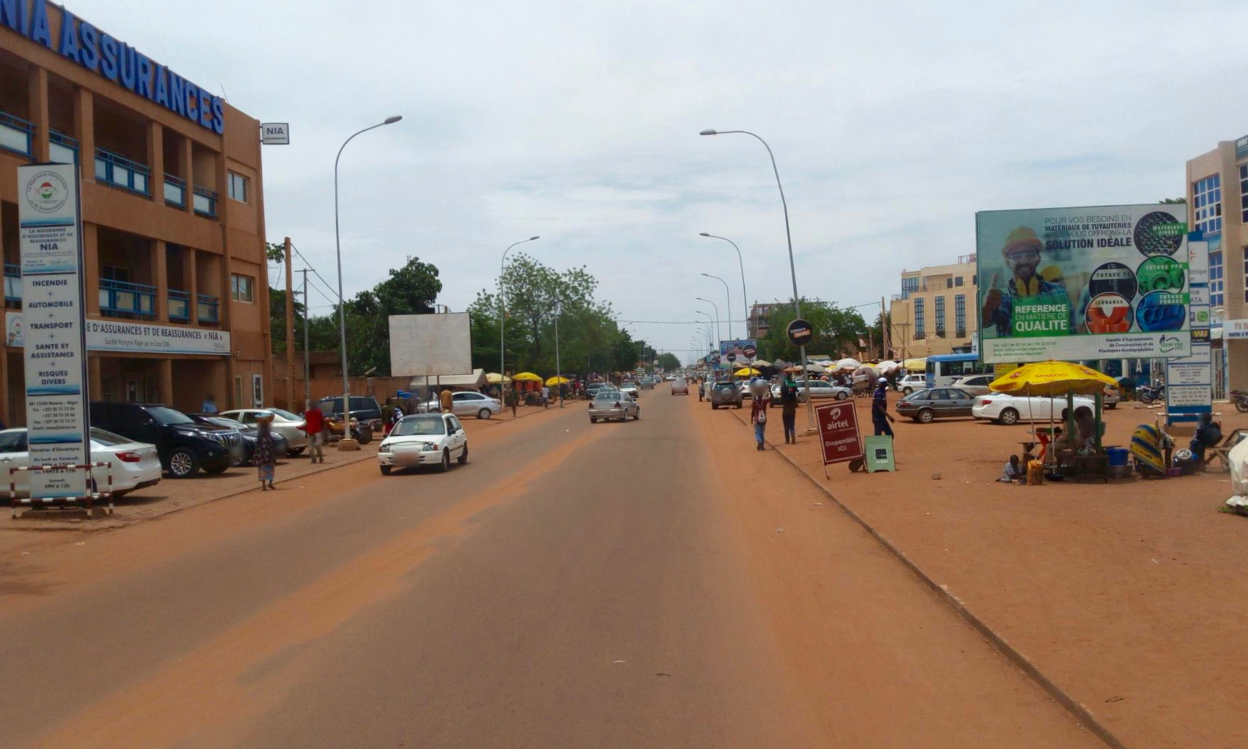 Avenue de l’Entente in Poudrière, Niamey.